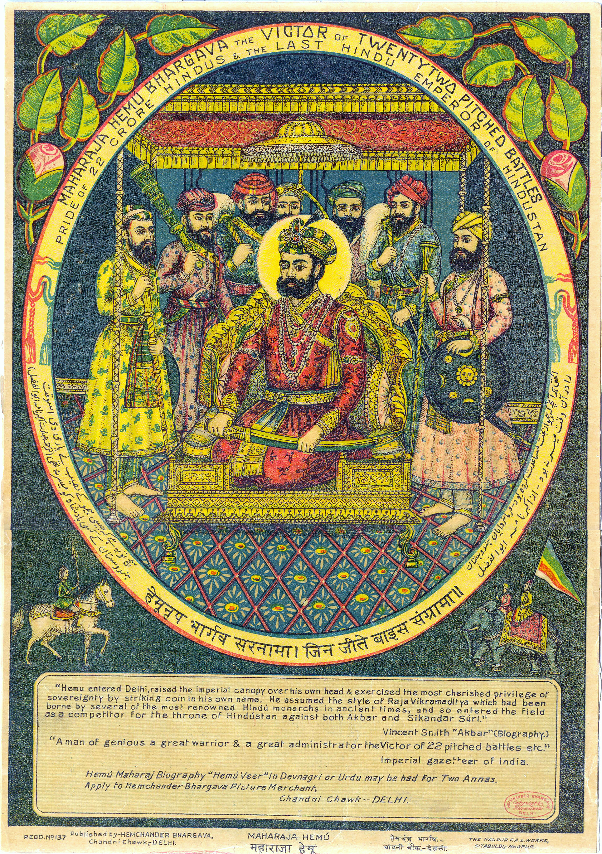 Hemu, re-imagined in this 1910s bazaar-art poster in very Mughal courtly style, and glorified in Hindi, Persian (from the Akbar-namah), and English, as "the last Hindu emperor of Hindustan", with his genius certified by the Imperial Gazetteer.